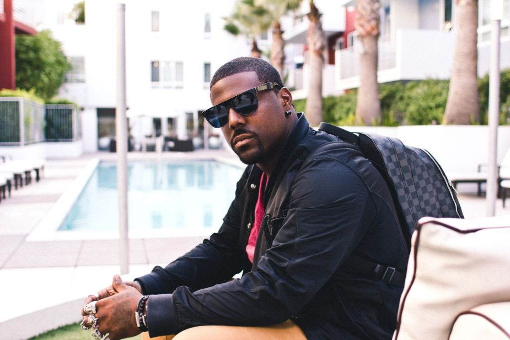 King Chip in Los Angeles, CA